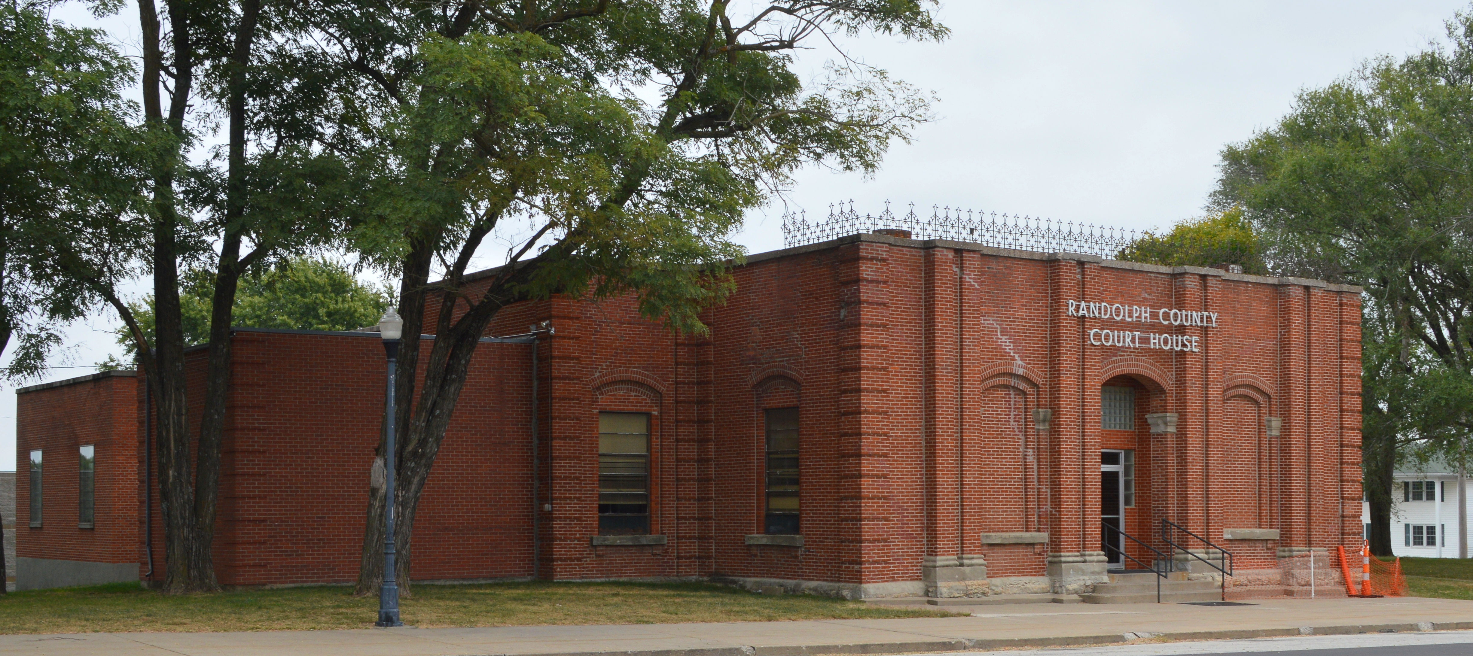 Randolph County, Missouri, historic courthouse in Huntsville. This building is still used for county business, but there is a modern justice center also in Huntsville. There is also an auxiliary courthouse in Moberly